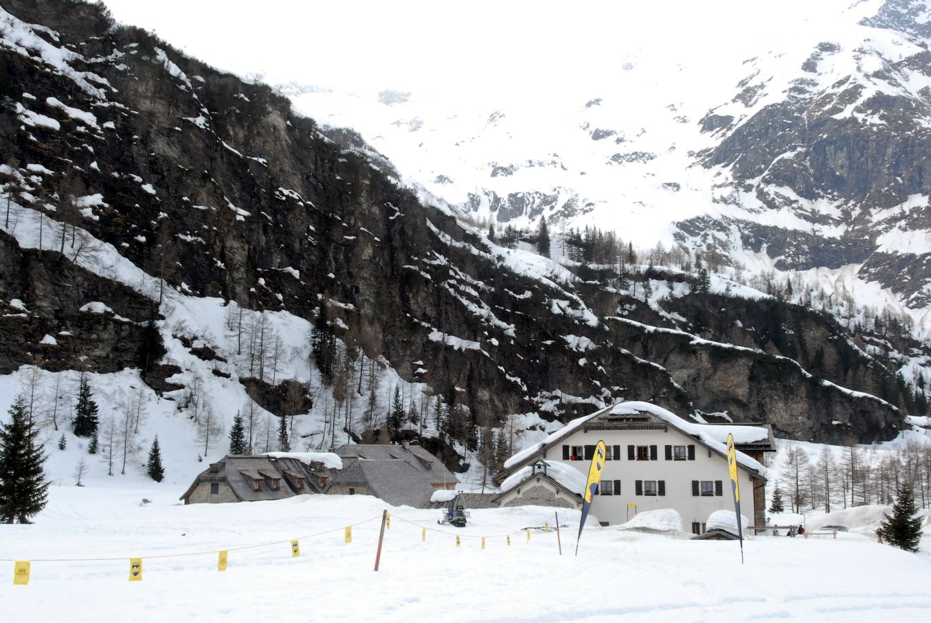 hhamlet Kolm Saigurn in the Alps Hohe Tauern